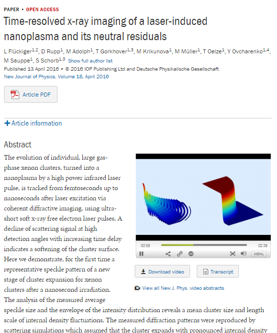 A video abstract accompanying a jounal publication (New Journal of Physics).